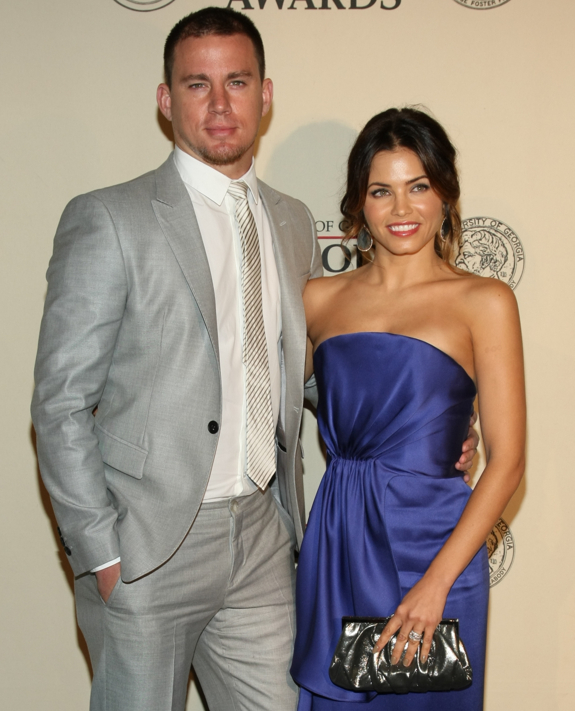 Channing Tatum & Jenna Dewan at the 71st Annual Peabody Awards Luncheon 2012.